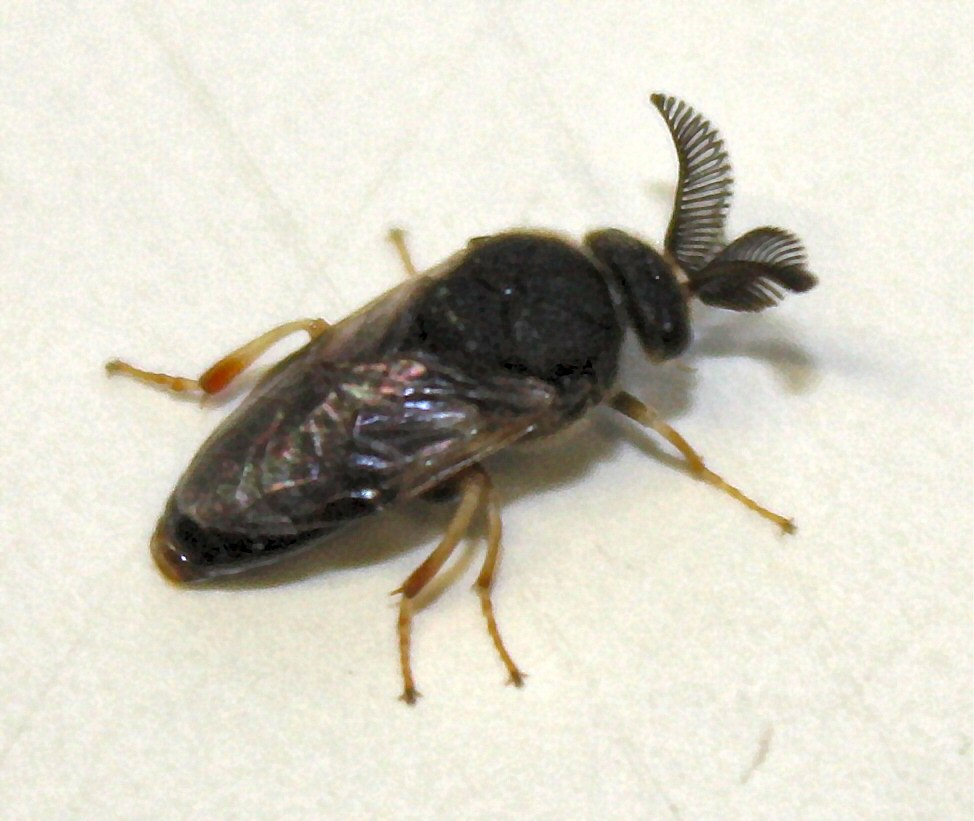 Diprion pini male. Applied Zoology/Animal Ecology, Freie Universität, Berlin